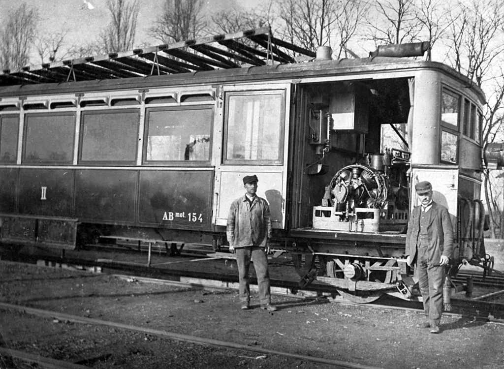 Weitzer ACSEV hybrid railmotor in 1903. I could operate from battery, petrol engine, and from overhead wires